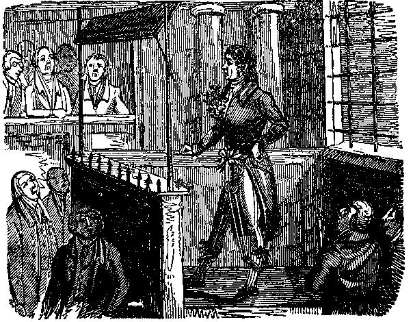 18th century illustration of John Rann on trial